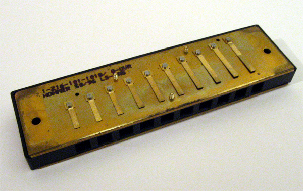 Reedplates mounted over the comb in a diatonic harmonica.